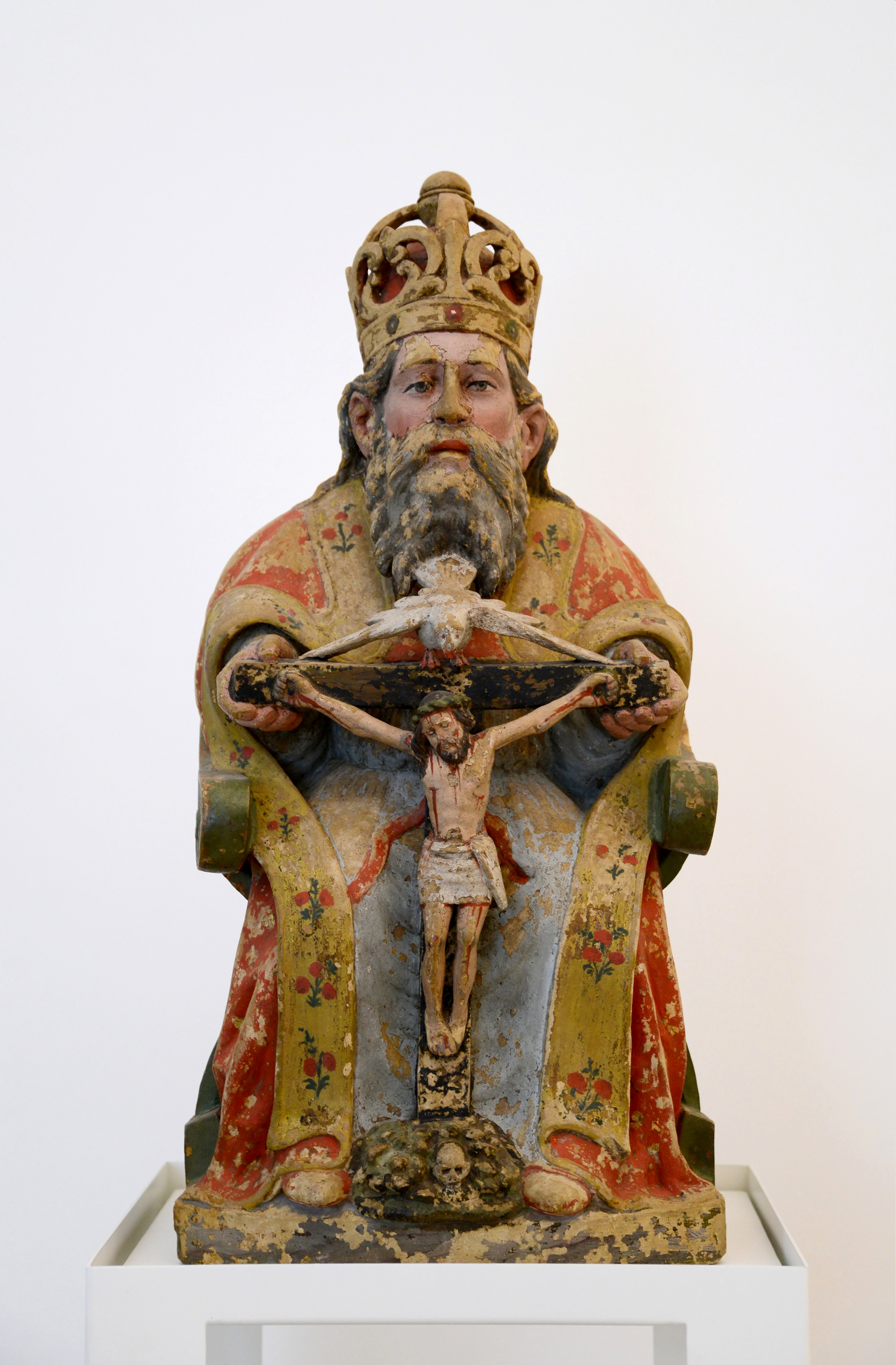 The Holy Trinity (16th cent.), unknown Portuguese master. Museu Diocesano de Santarém, Portugal